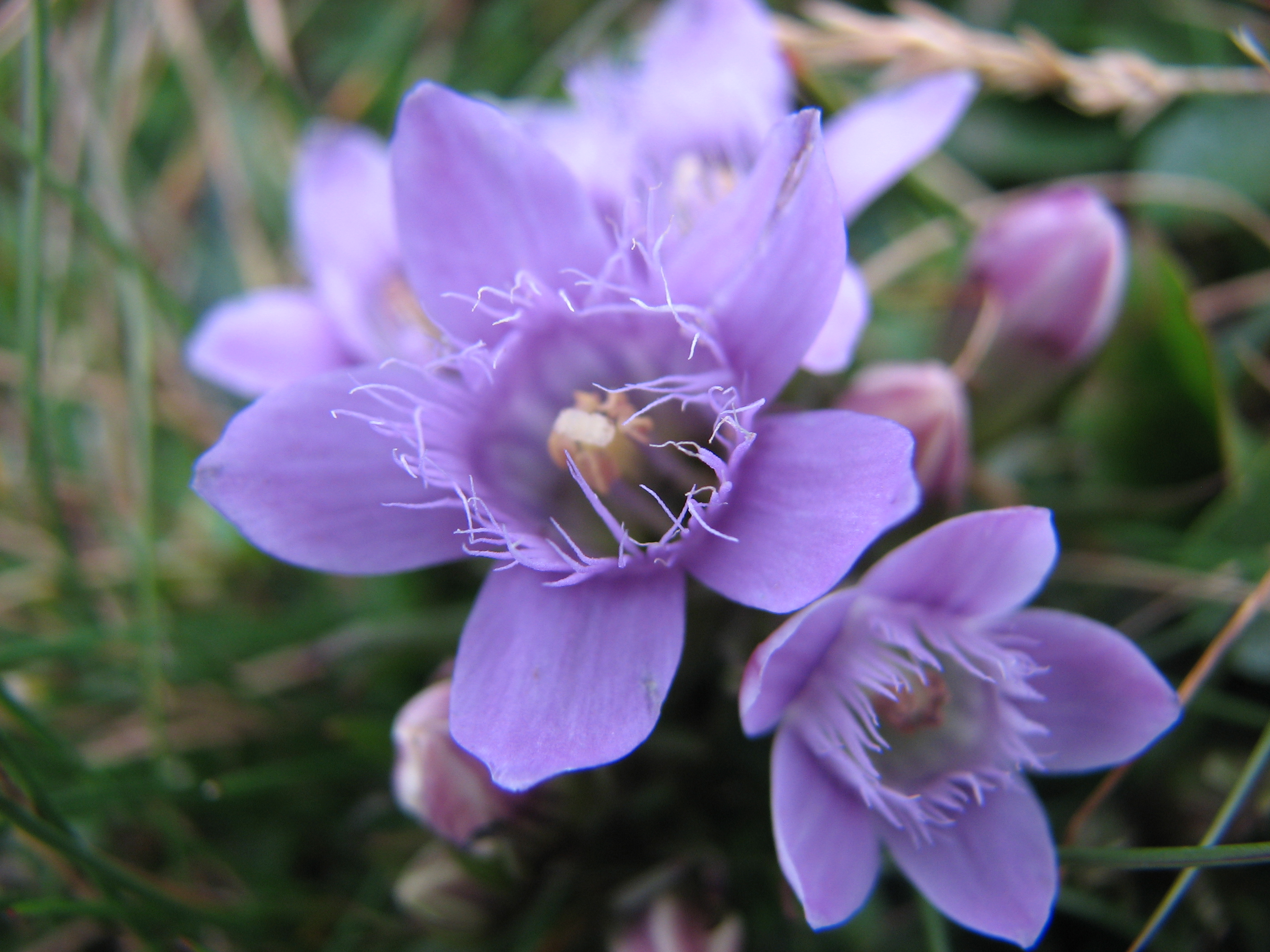 Flower at 2200 m altitude.